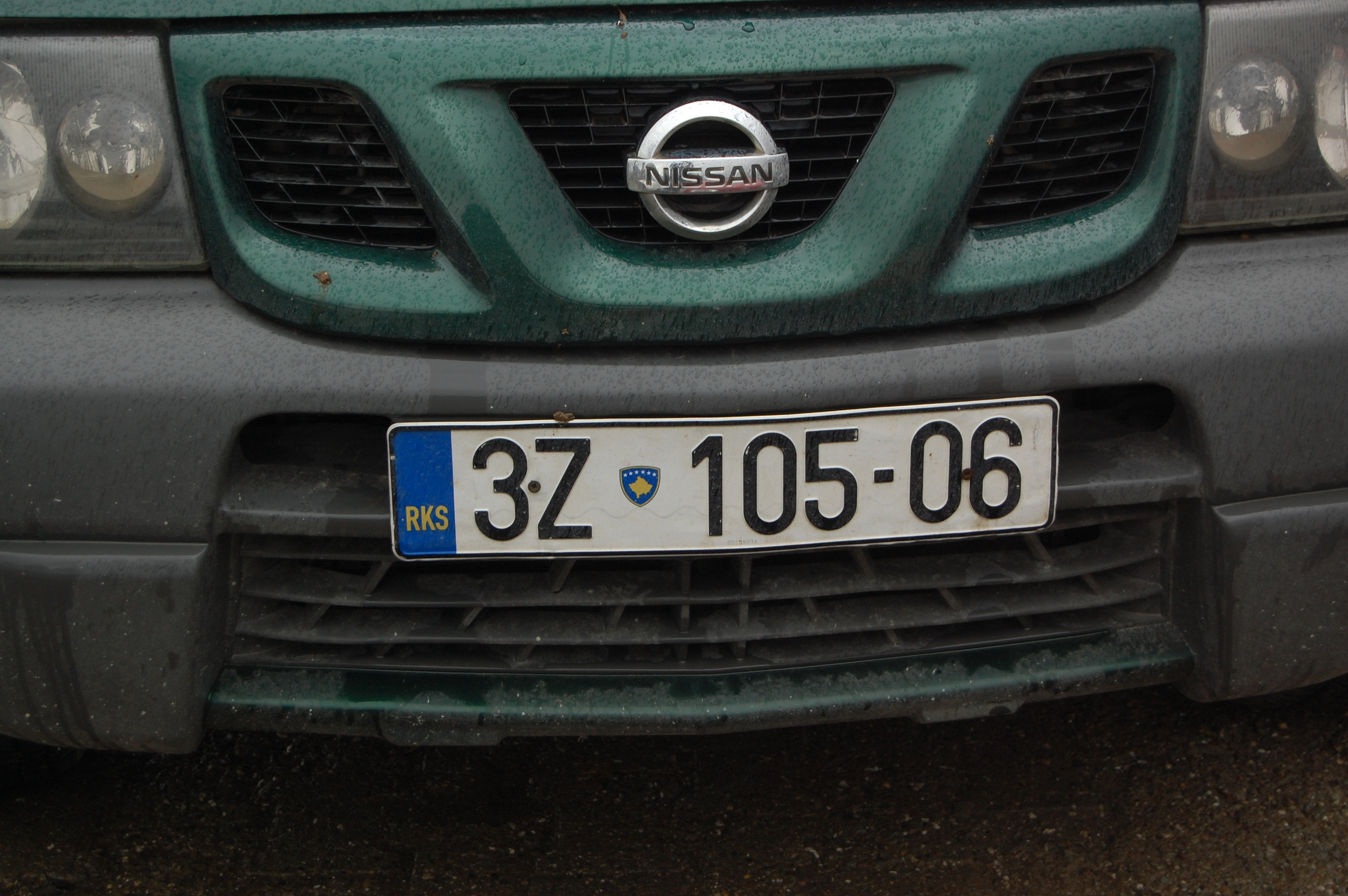 Seen on a Nissan in Pristina, Kosovo. "3Z" is the code for republic of Kosovo government vehicles.